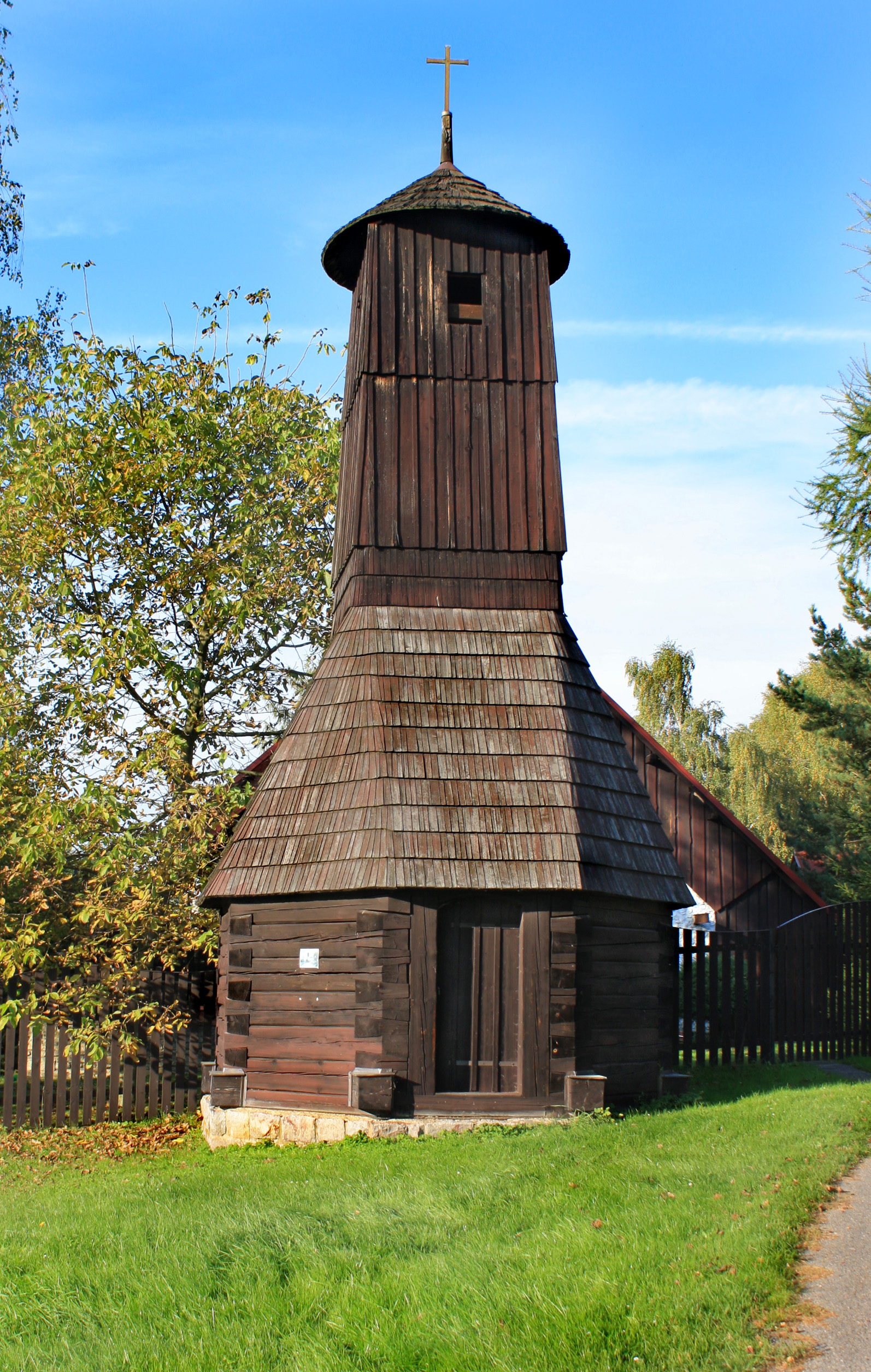 Bell tower in Rviště, part of Orlické Podhůří, Czech Republic